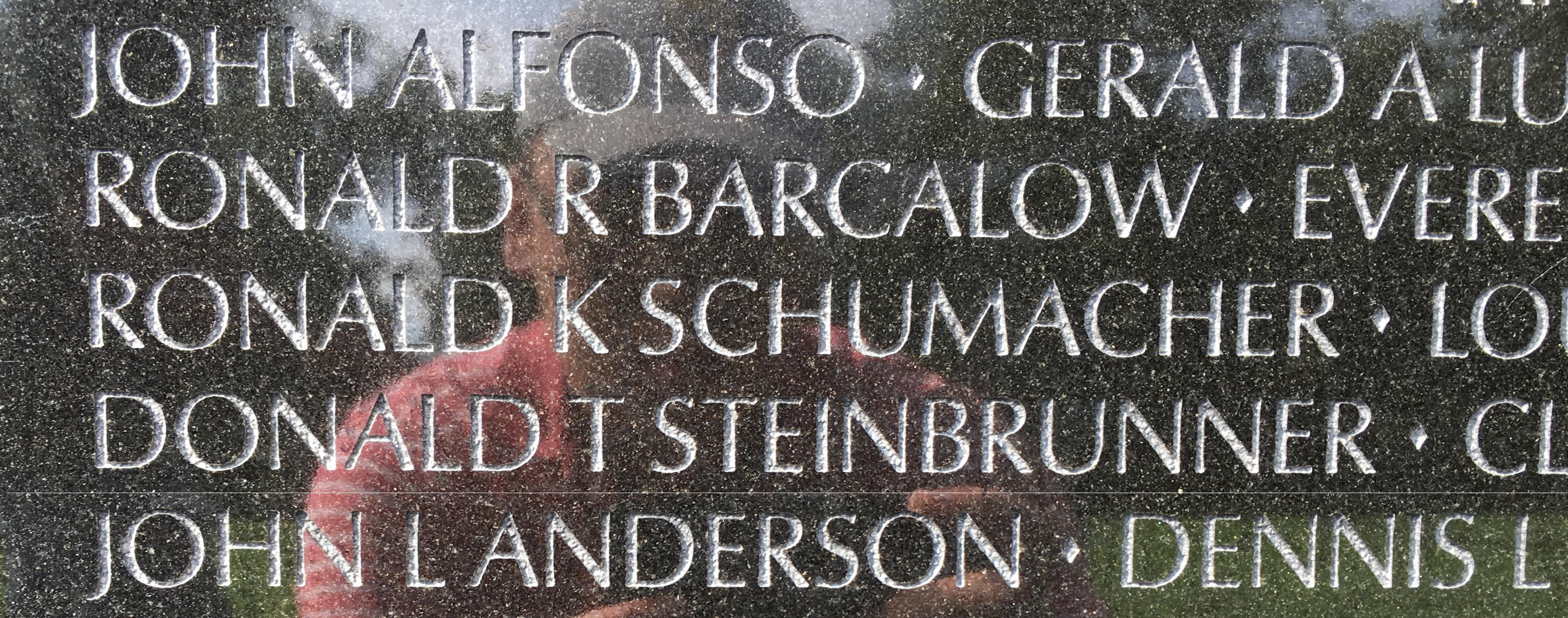 Don Steinbrunner's name on the Vietnam Veterans Memorial (Panel 23E - Line 96 ).